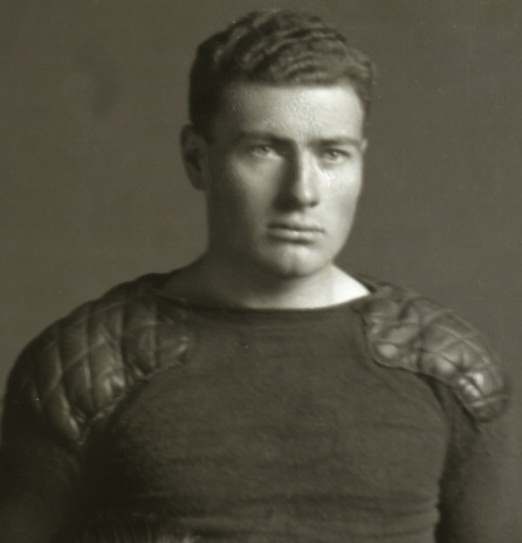 Photograph of Thomas A. Bogle